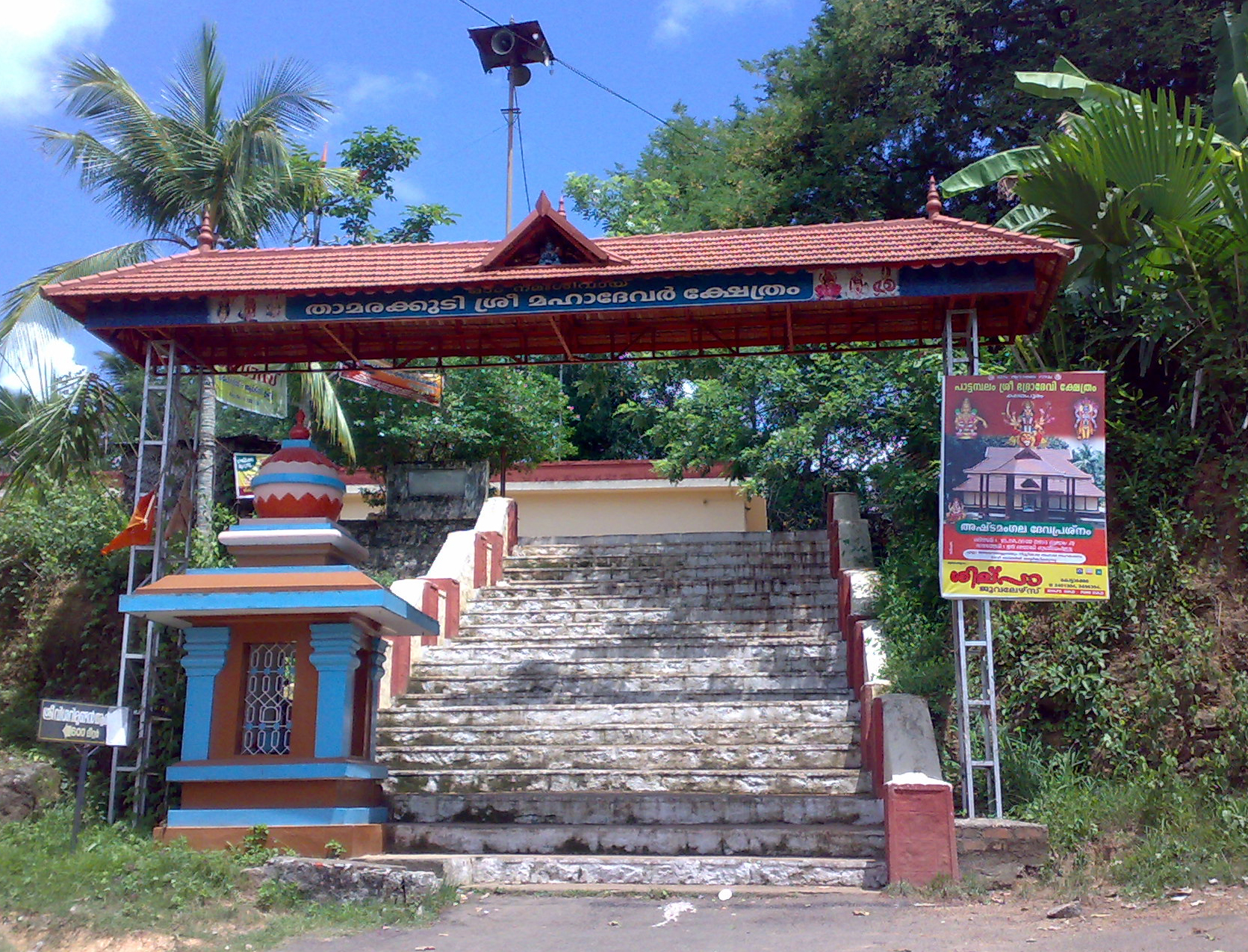 Picture of Tamarakudy Sree Mahadevar Temple located in Tamarakudy Village in Kollam District.